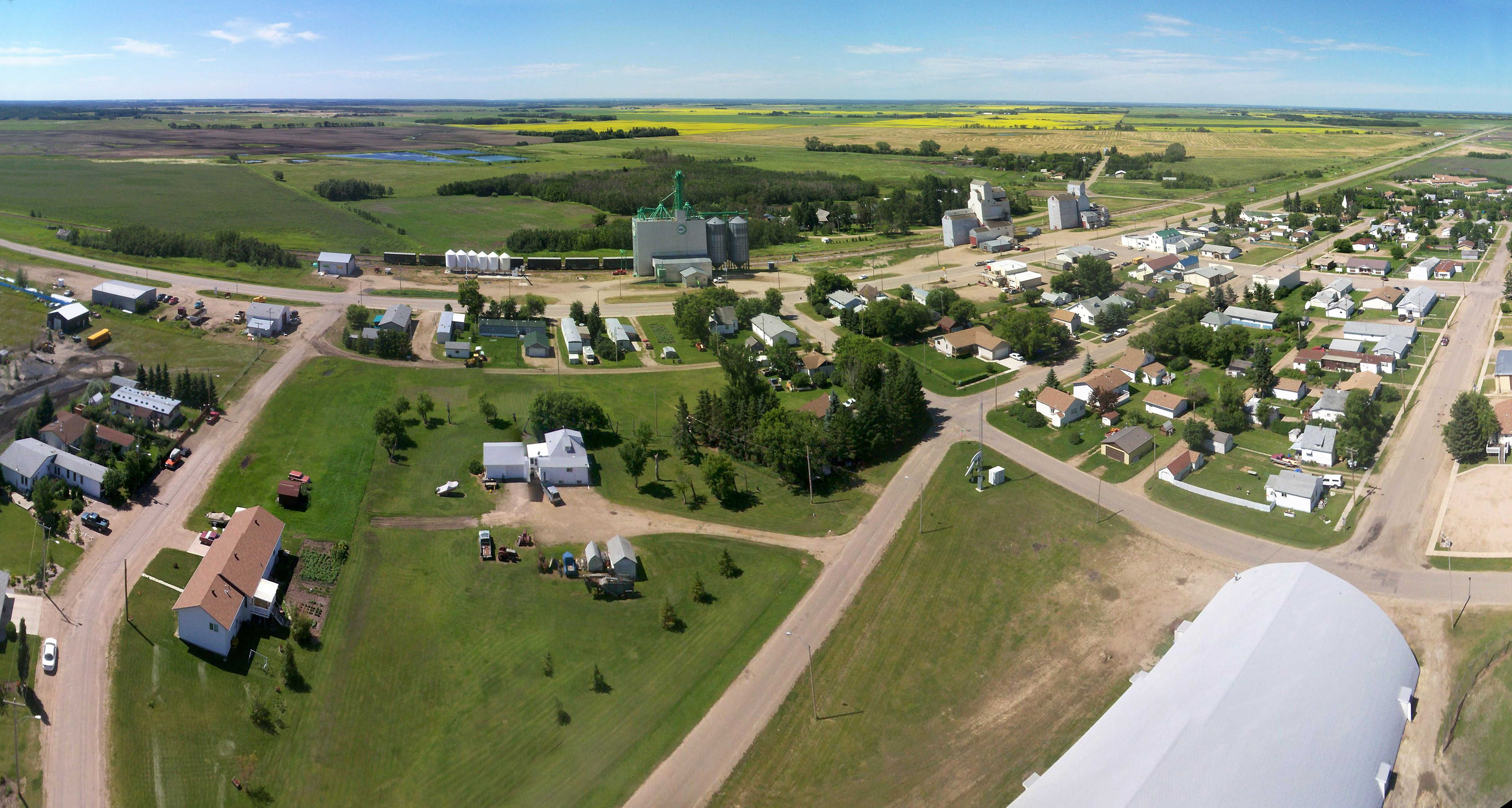 Aerial photo of Canwood, taken July 17th 2006.